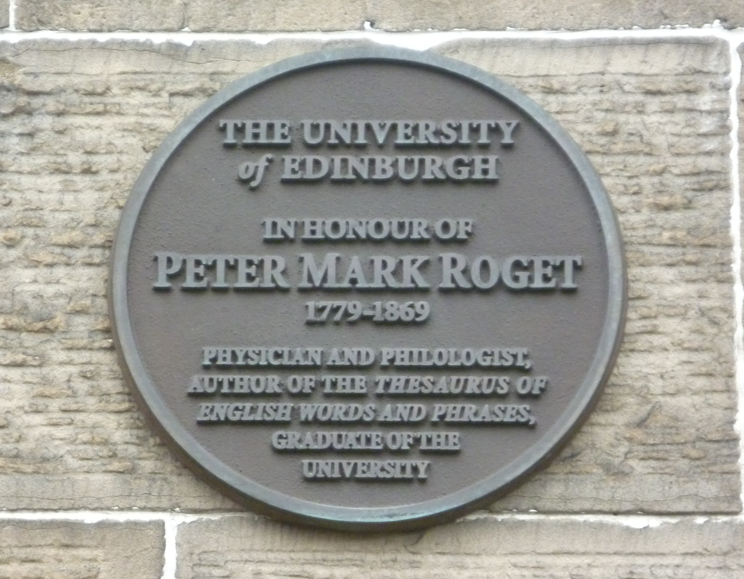 One of several similar Edinburgh University plaques in George Square